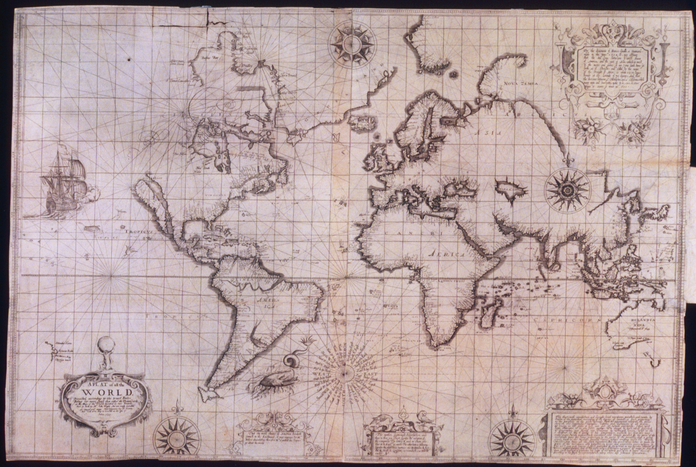 "A Plat of All the World" (1657), known as the Wright–Moxon Map. It is a heavily updated creation based on a 1610 enlargement (done by William Kip) of the original 1599 Wright-Molyneux Map. The 1657 Wright-Moxon Map incorporates the wealth of discoveries stemming from voyages of discovery from 1599 to 1655, particularly in Northern Canada and Australia. This map appears in the 1657 edition of Edward Wright's Certain errors in navigation. Note that the file name given to this map in Wikimedia Commons is incorrect.